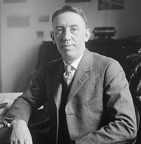 Charles L. Richards (Nevada Congressman)